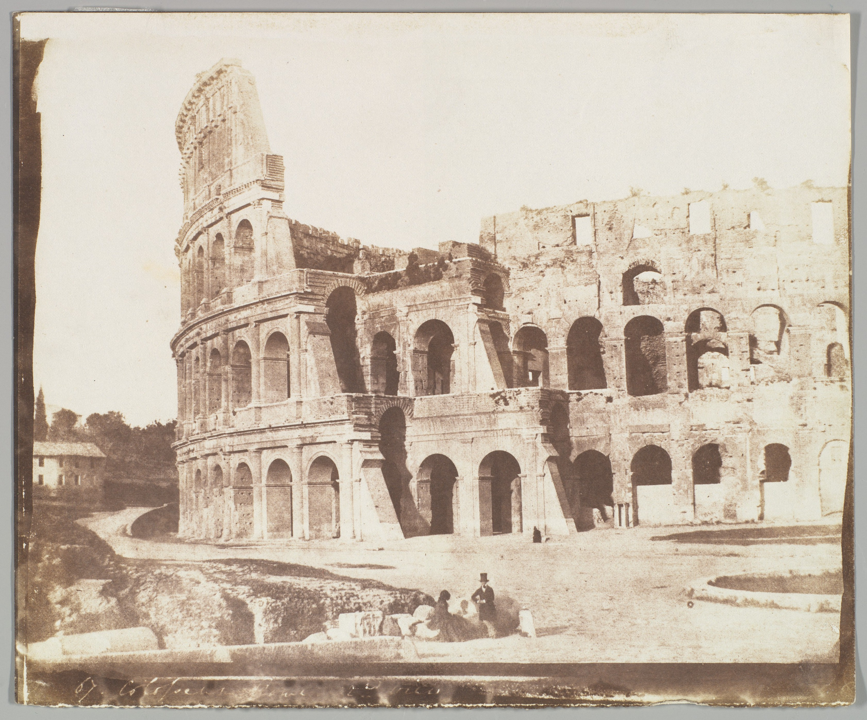 The Colosseum of Rome, 1846, Calotype, 18,9 x 22,7 cm